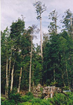 Tasmania, Styx Valley. This Eucalyptus regnans of about 300 feet high and 300 years old is isolated by logging and in danger of being struck by lightning. (2001) Known as "Gandalf's staff".